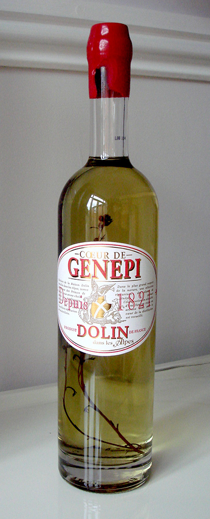 A bottle of Genepi (Coeur de Genepi) digestive liqueur from the Savoie region of the French Alps.